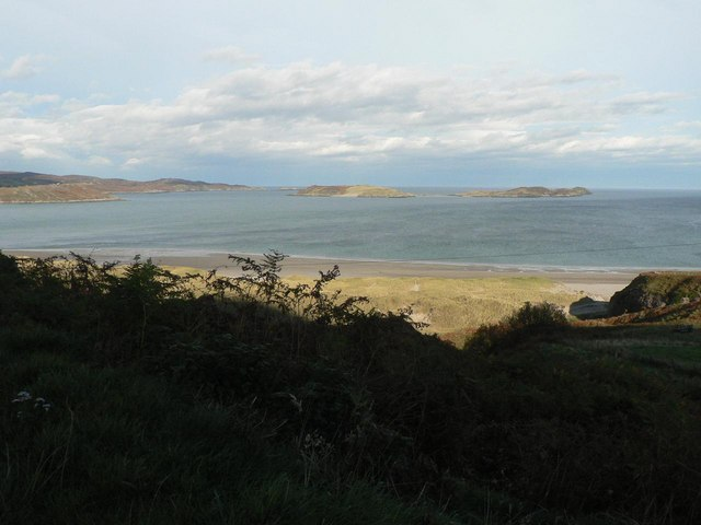 Coldbackie: view of Tongue Bay and Rabbit Islands A pleasant view north from the main road.